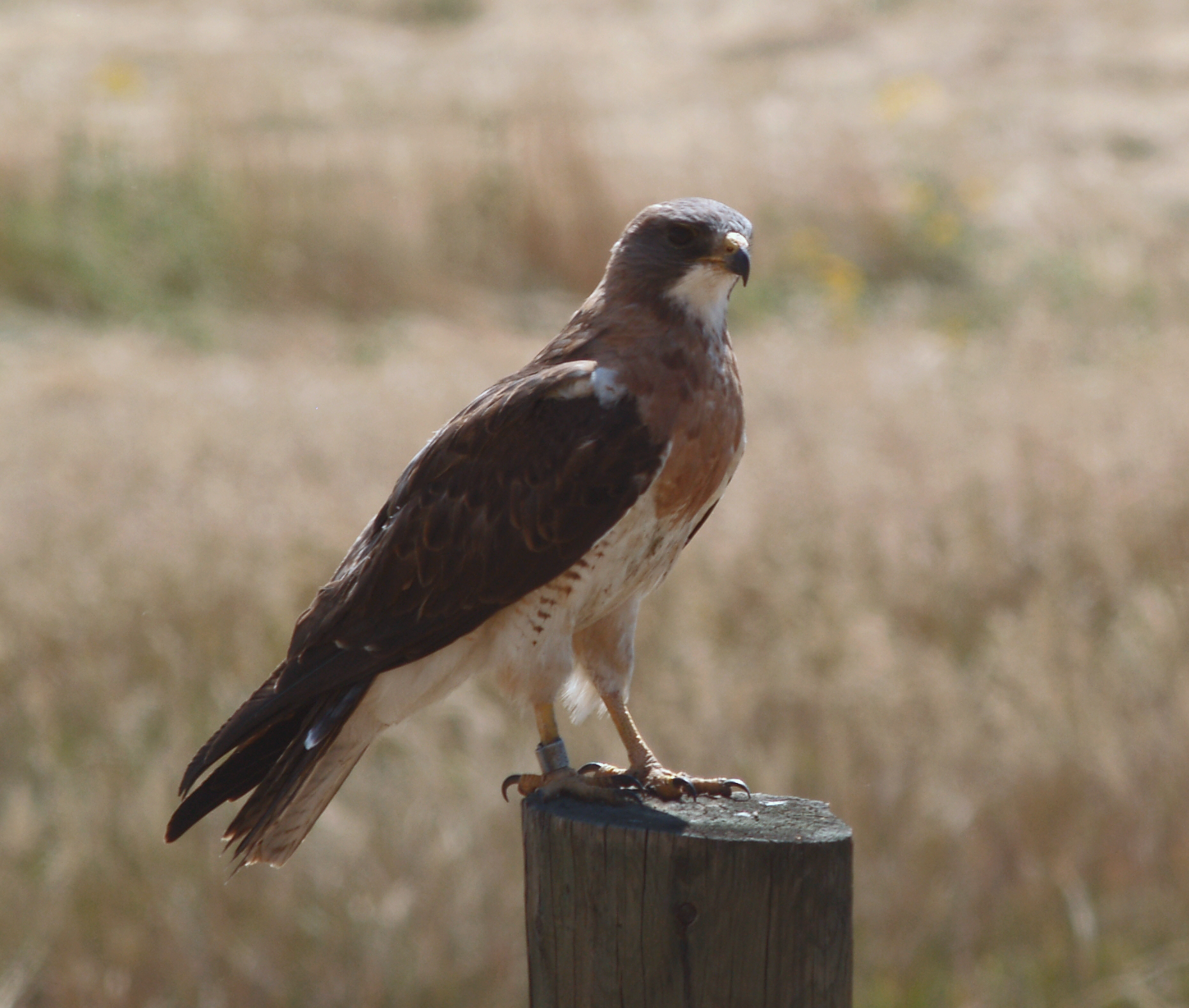 A Swainson's Hawk (Buteo swainsoni) near Barr Lake State Park, Colorado.